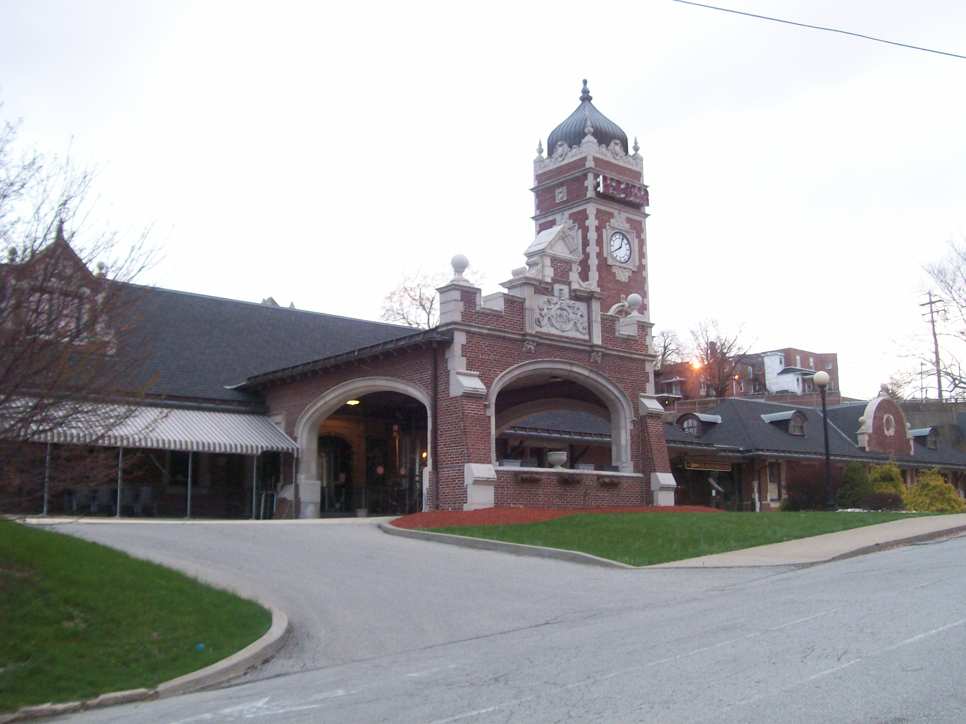 My own image- released into the public domain.